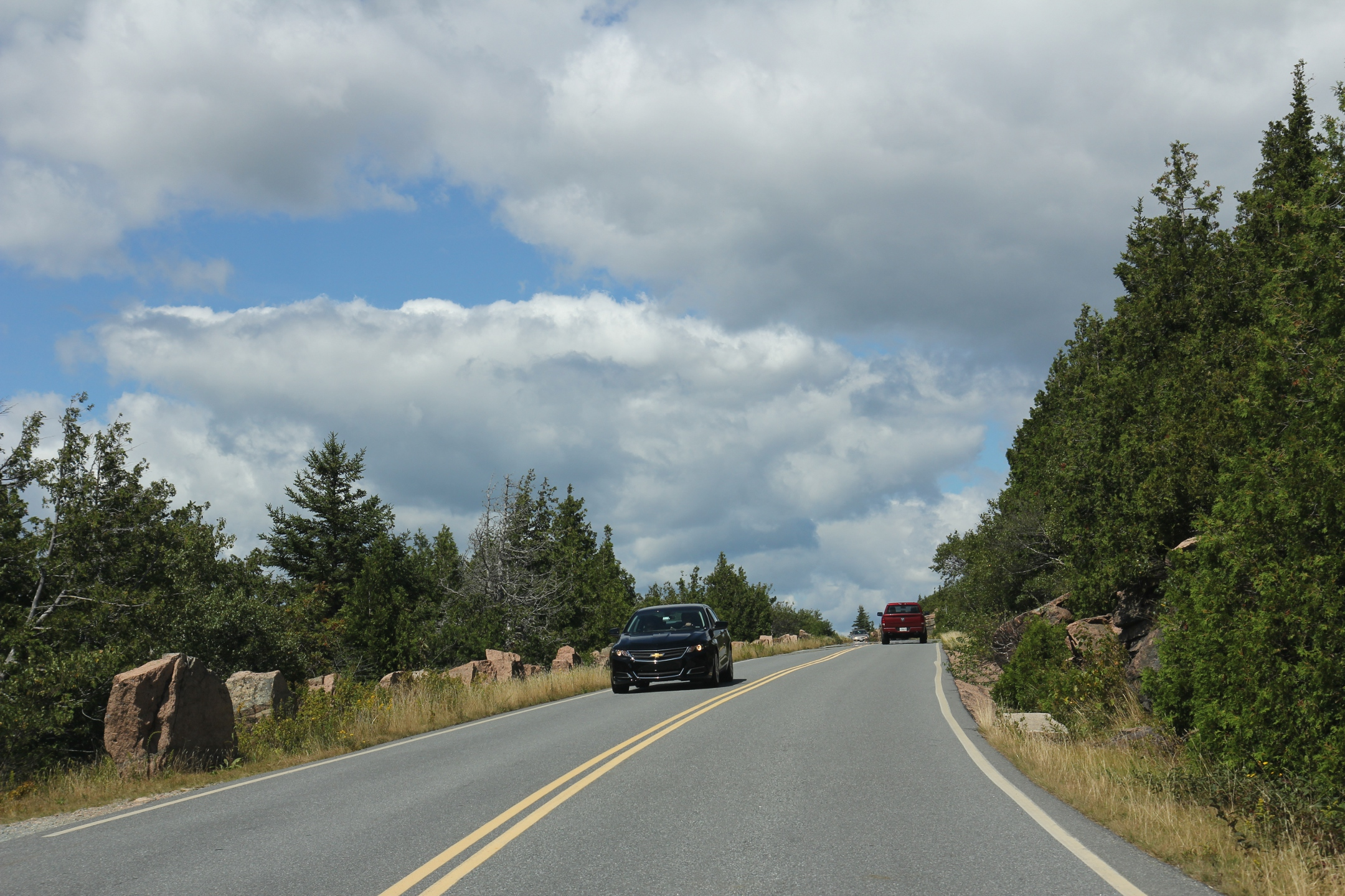 Granite stones line the original carriage trails throughout Acadia National Park. They were dubbed "Rockefeller's Teeth" after John D. Rockefeller, Jr. who donated the money and direction the construction of the boulders.